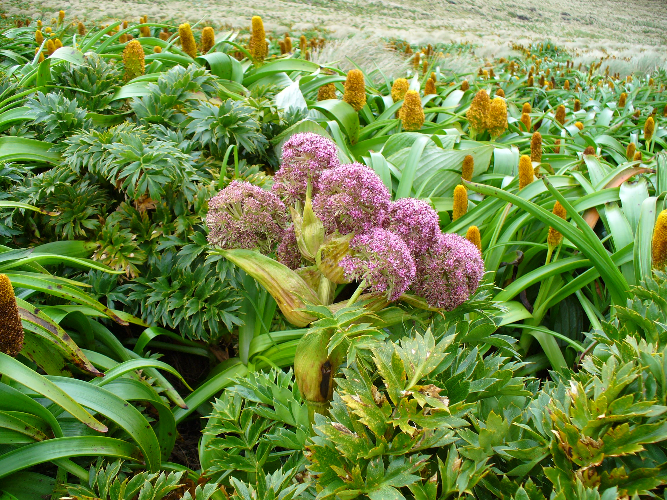 Anisotome latifolia, a type of megaherb, growing on Campbell Island, one of the sub-antarctic islands of New Zealand. This photograph was taken by and originally posted to flikr by Twiddleblatt, under the title 'Anistome'.